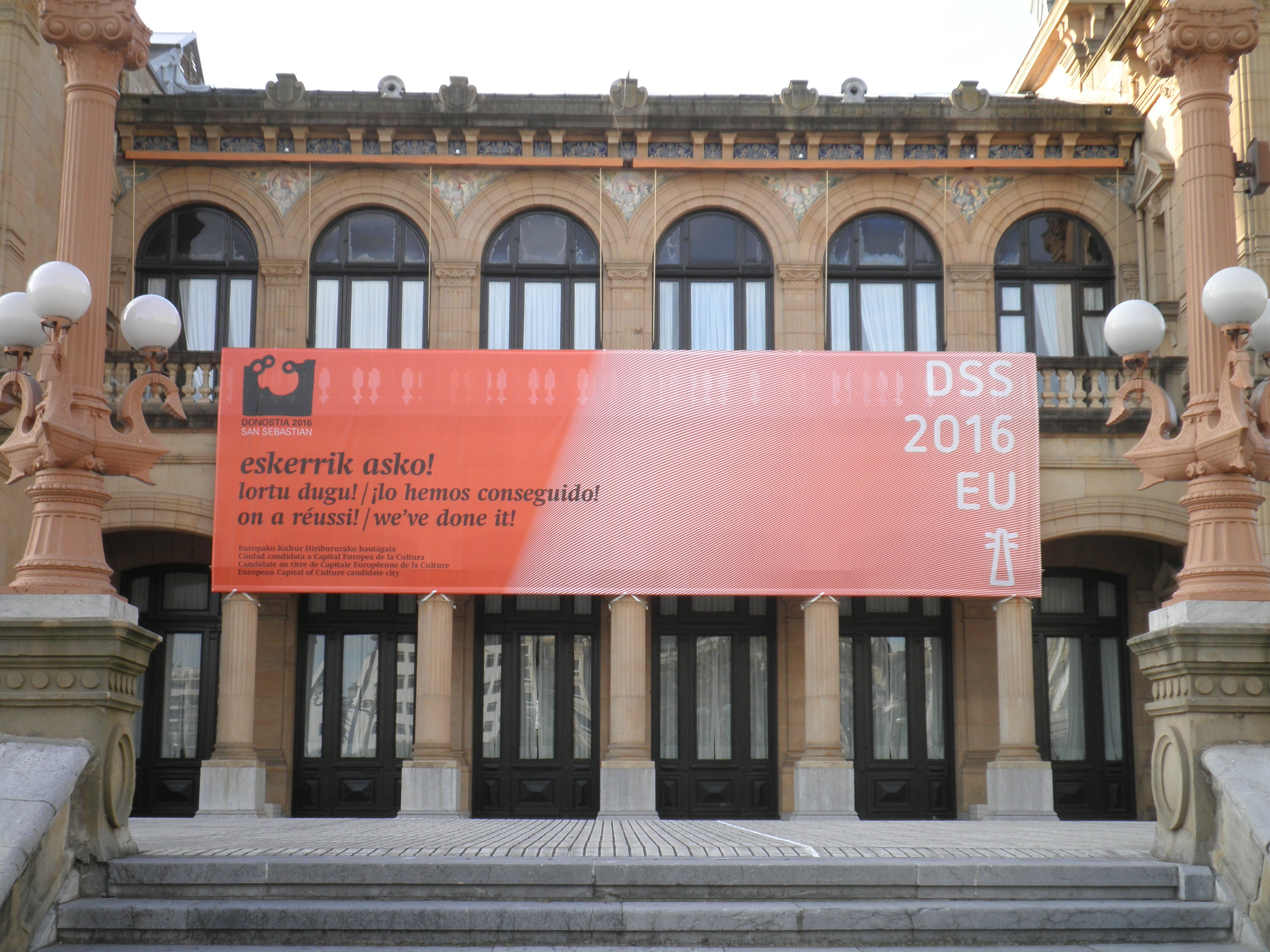 Donostia 2016 banner.